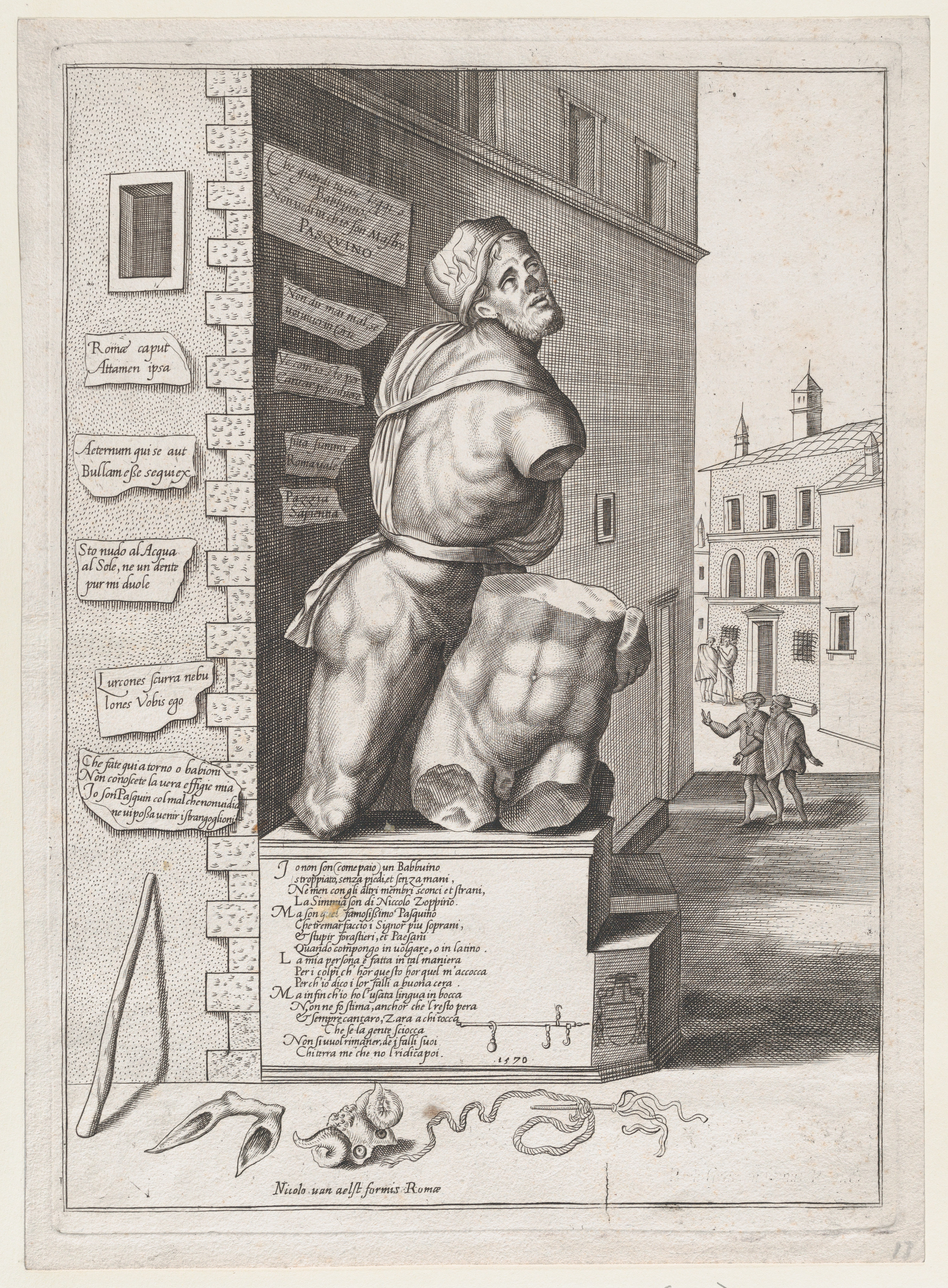 Print; Prints